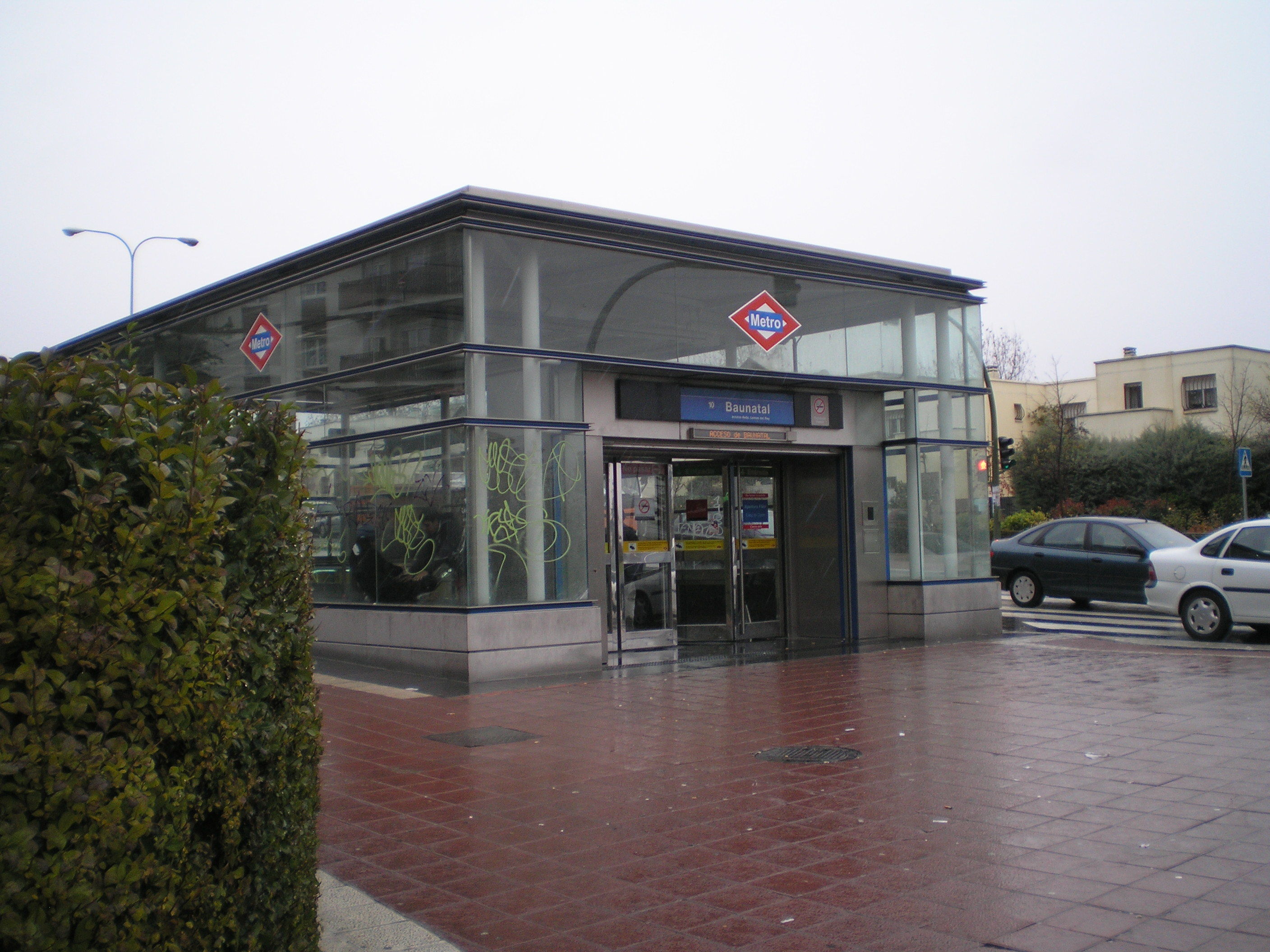 Baunatal underground station in San Sebastián de los Reyes (Madrid Metro).